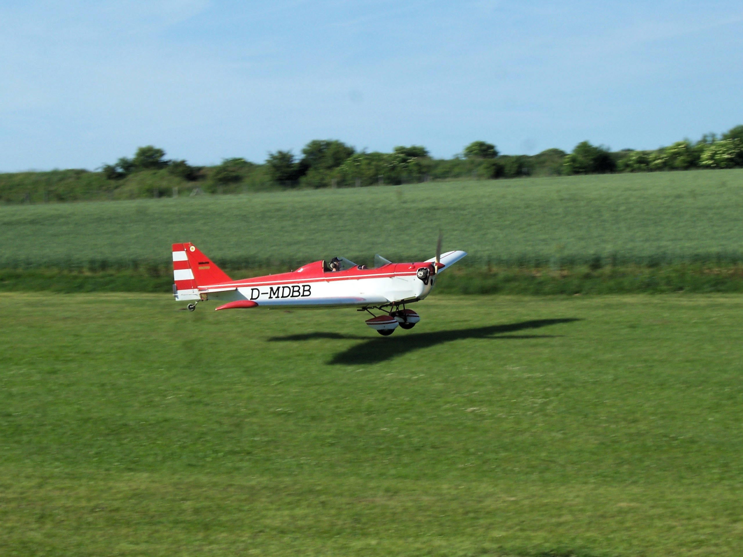 Ultralight aircraft Dallach D2 "Sunrise II"